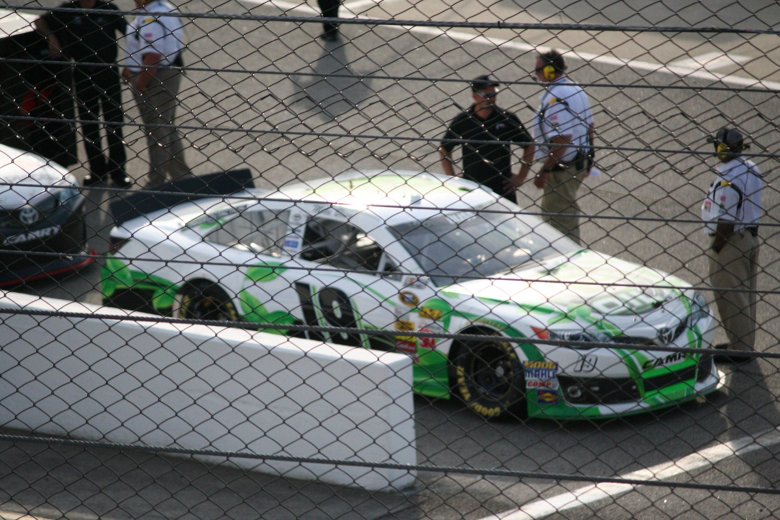 Mike Bliss' No. 19 Toyota waits to attempt to qualify for the NASCAR Sprint Cup Series Toyota Owners 400 at Richmond International Raceway, April 26 2013.